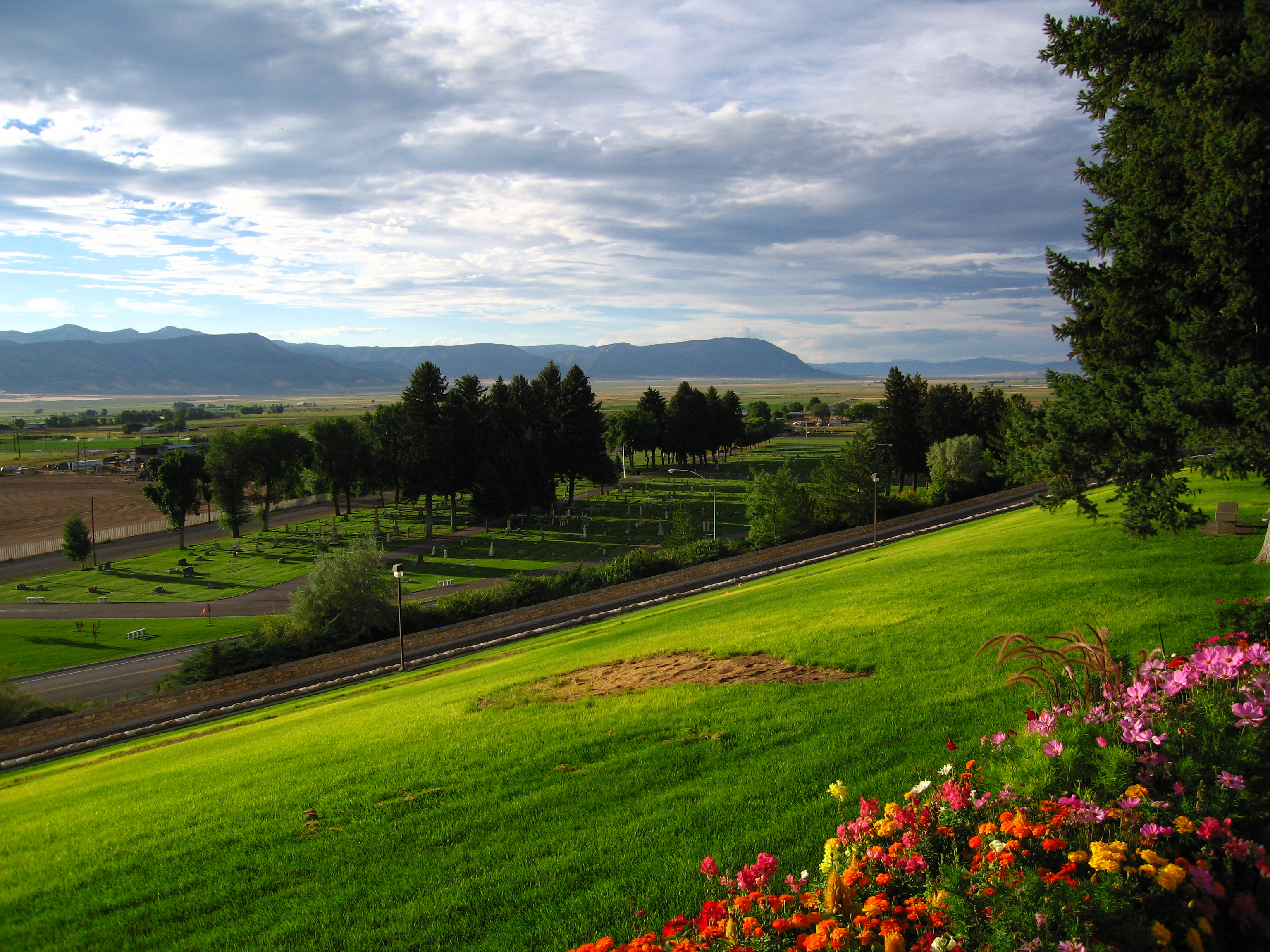 The Manti valley, Manti, Utah, United States. Photo from Temple Hill (Manti Utah Temple of The Church of Jesus Christ of Latter-day Saints). Photo by Ricardo630 Ricardo630 04:39, 9 August 2006 (UTC)